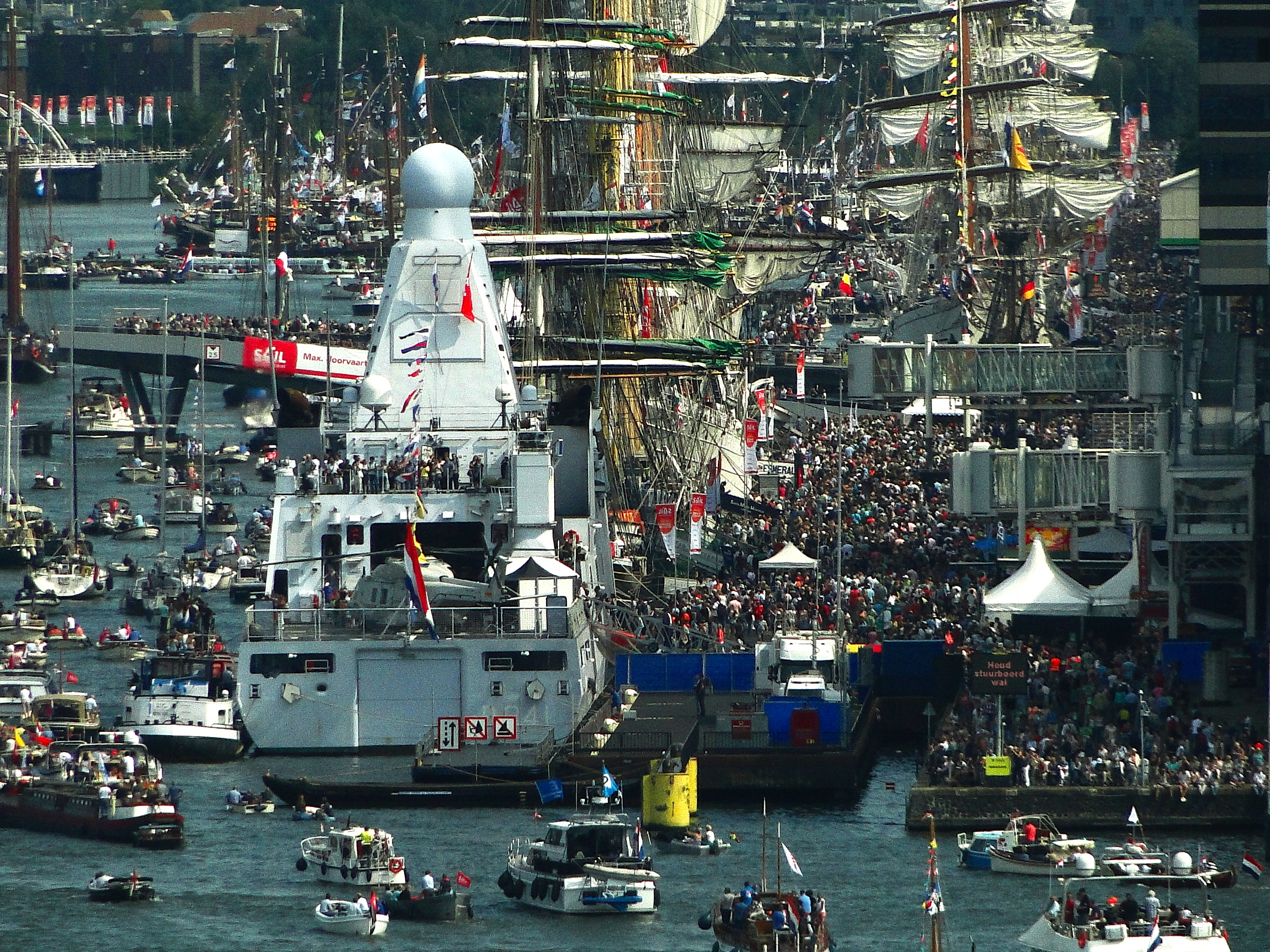 Spectators watching ships during Sail 2015 in Amsterdam